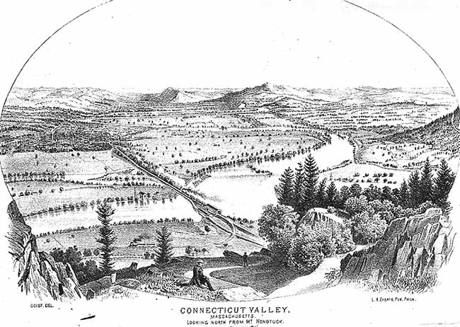 View of the Oxbow looking north from Mount Nonotuck